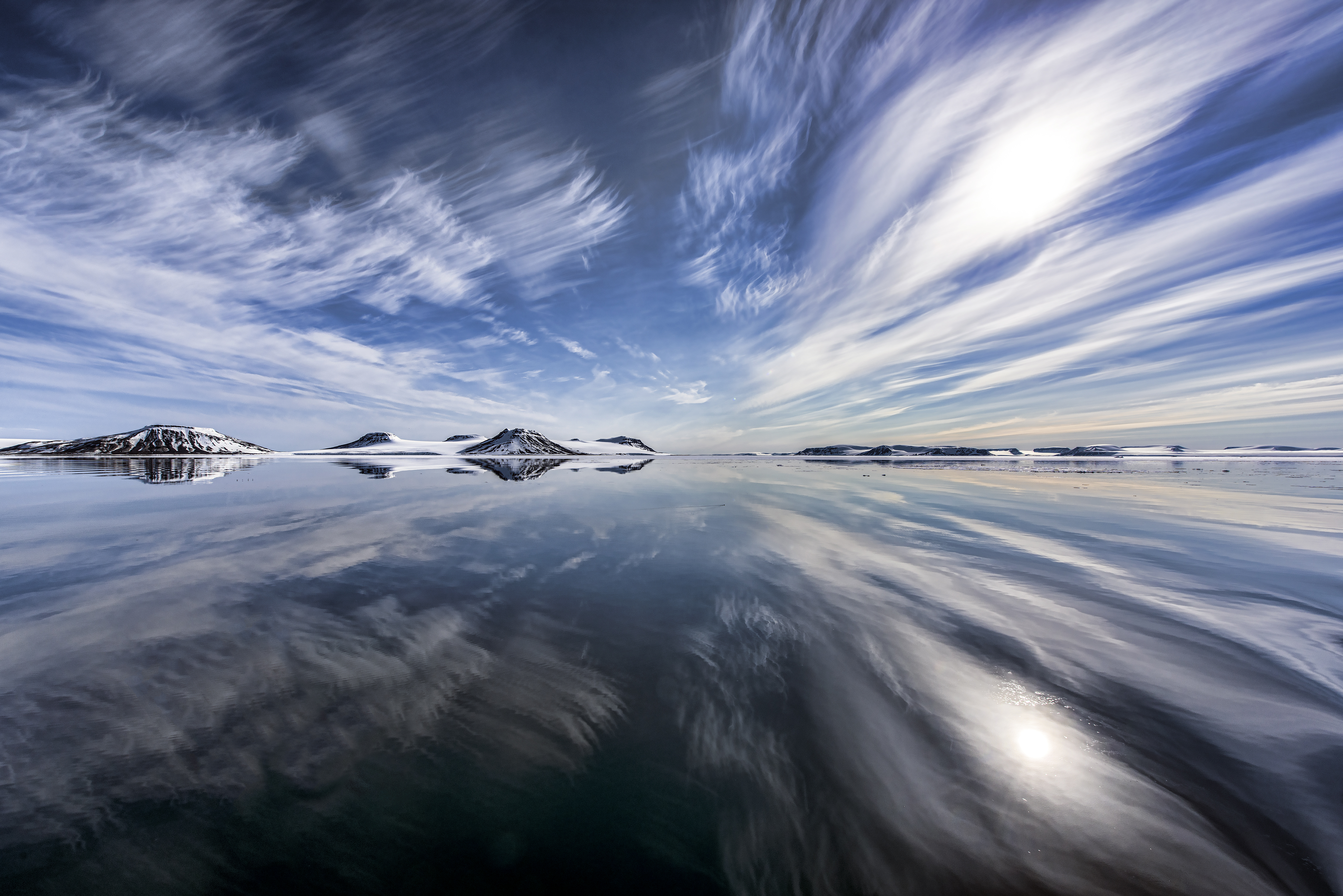 Endless. Franz Josef Land.